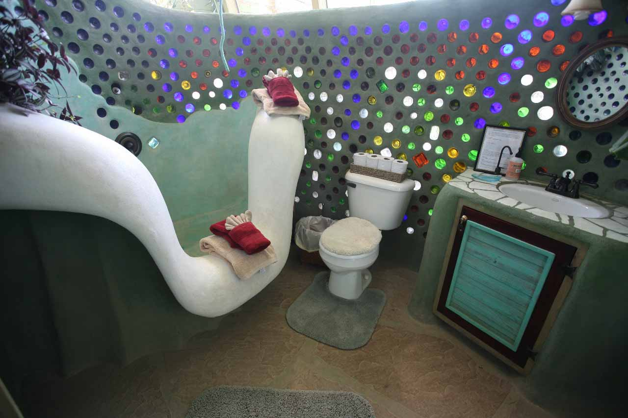 earthship bathroom in the Phoenix Earthship